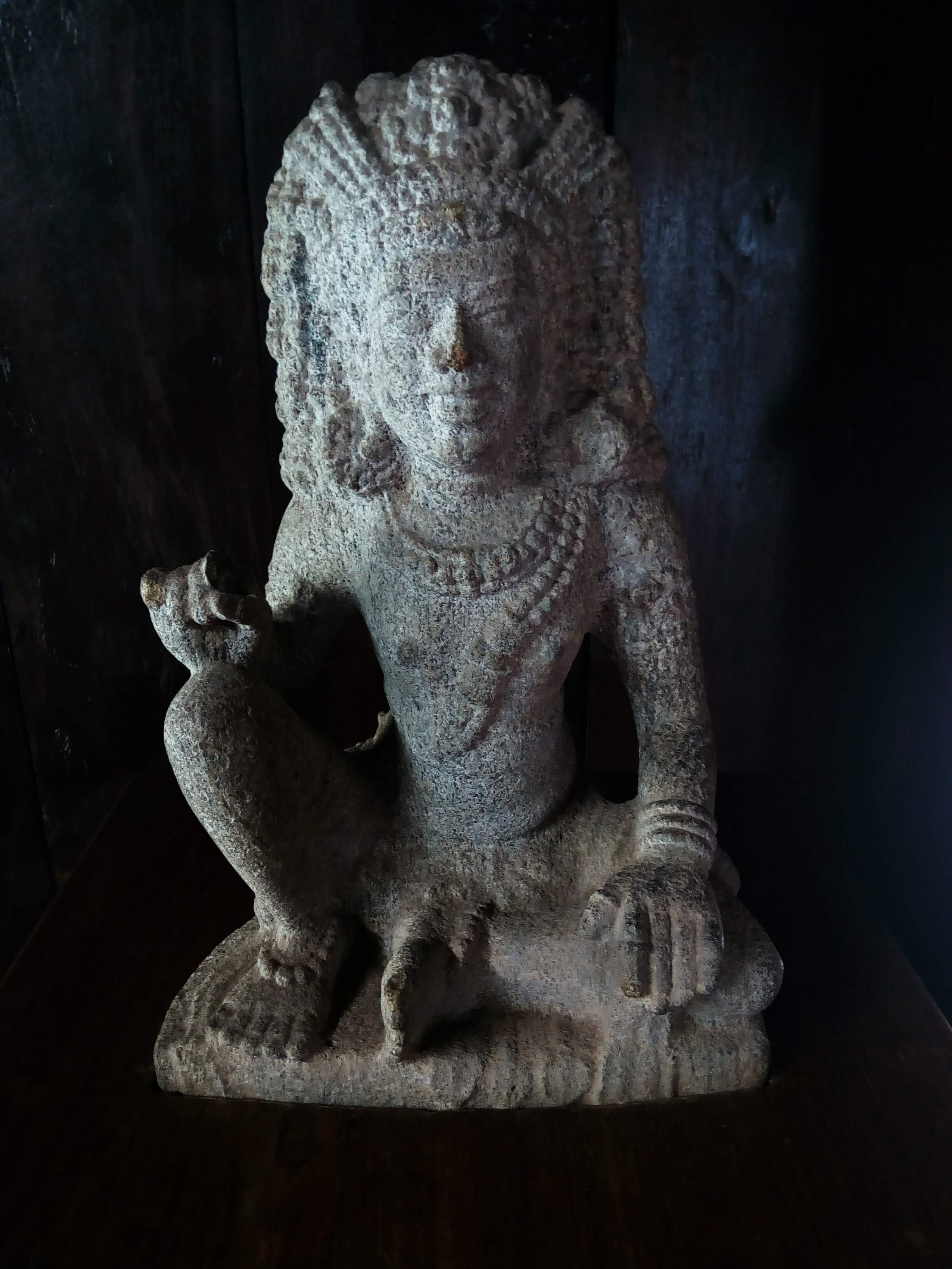 Sastha Archeological stuff Krishnapuram Palace